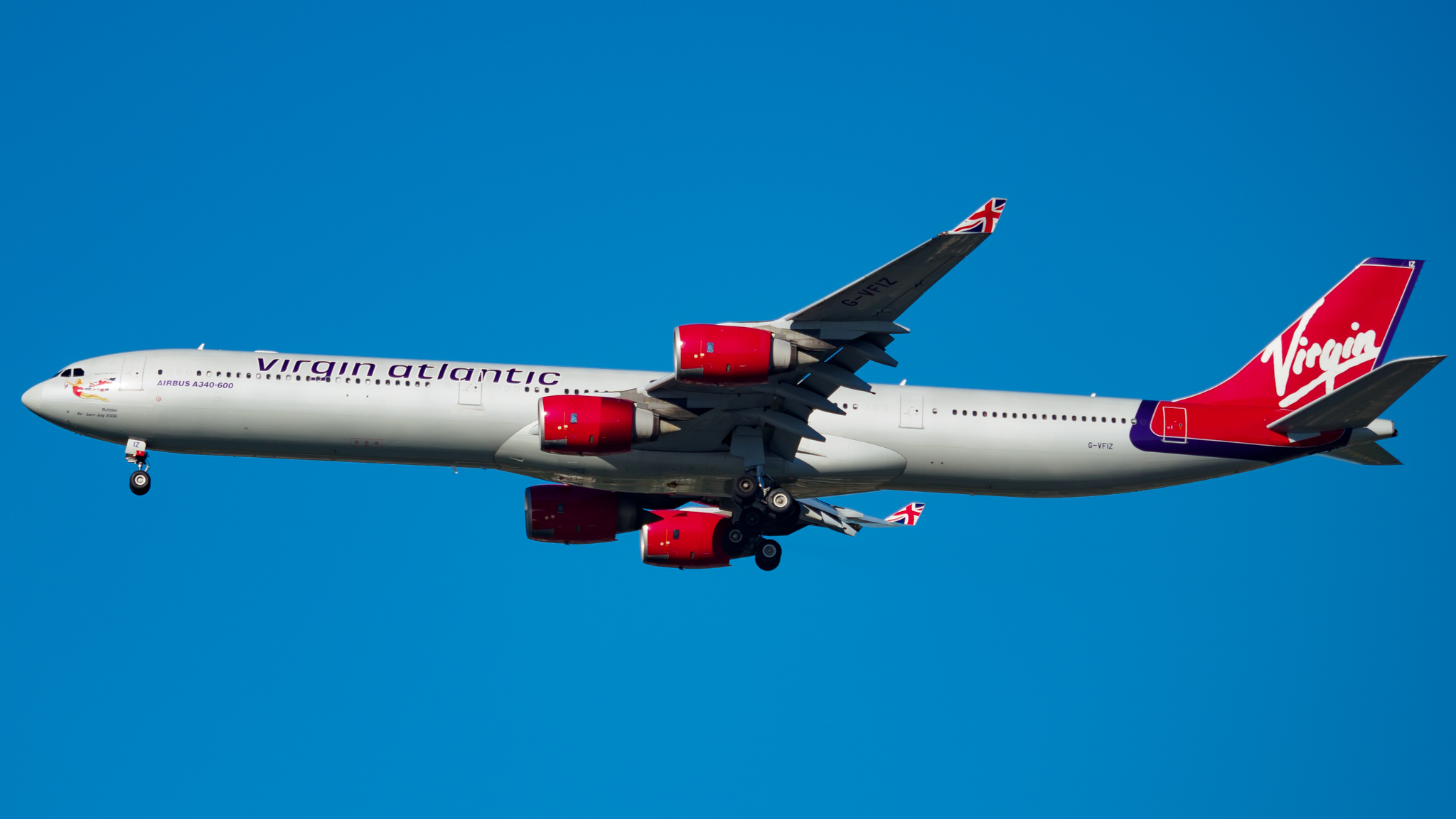 Spotting near JFK